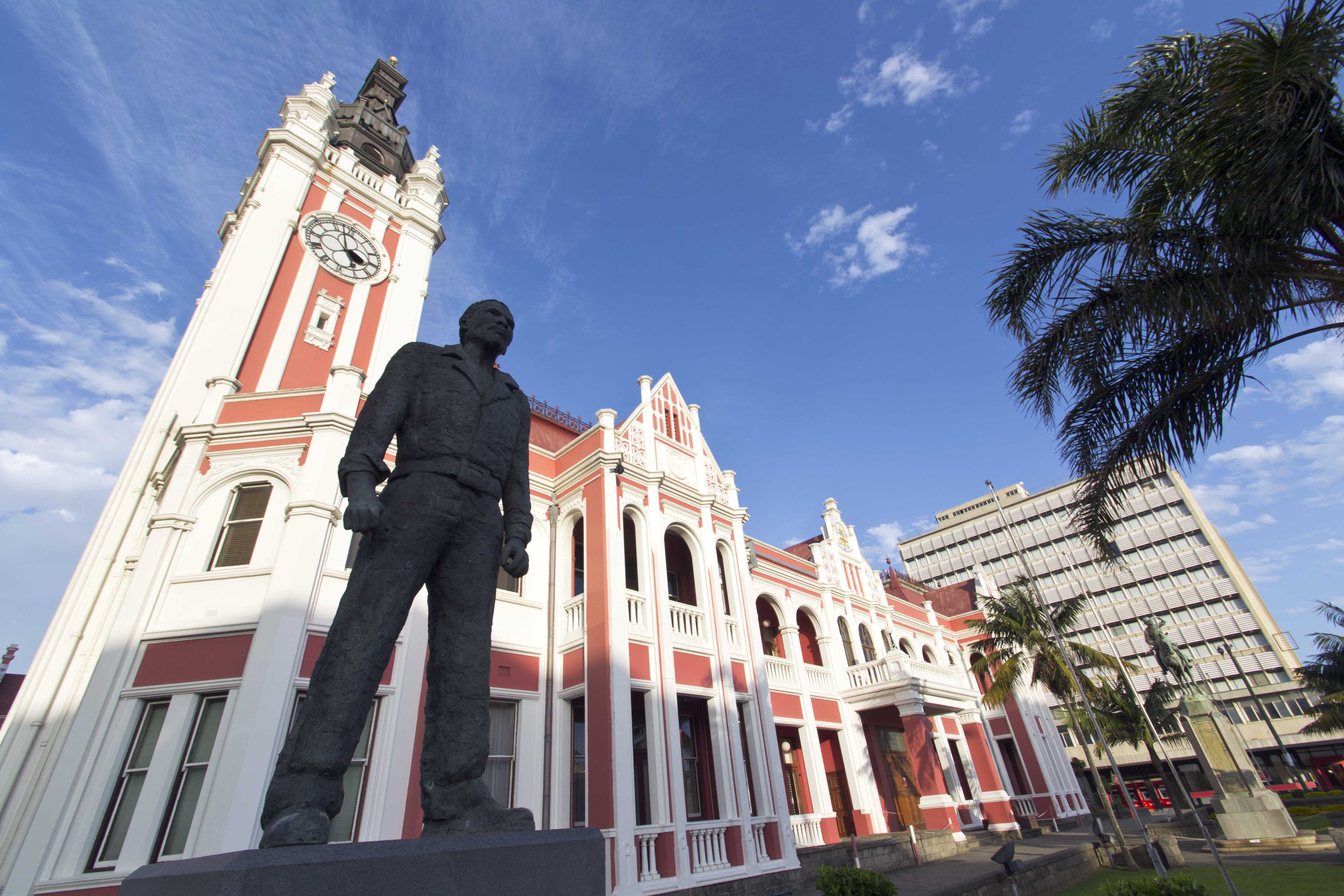 Victorian, neo-classical and Renaissance features, form an integral part of the historical and architectural core of East London. This view shows the memorial to Steve Biko in the foreground and the War Memorial in the bottom right corner. This media shows a South African Protected Site with SAHRA file reference 9/2/026/0005.